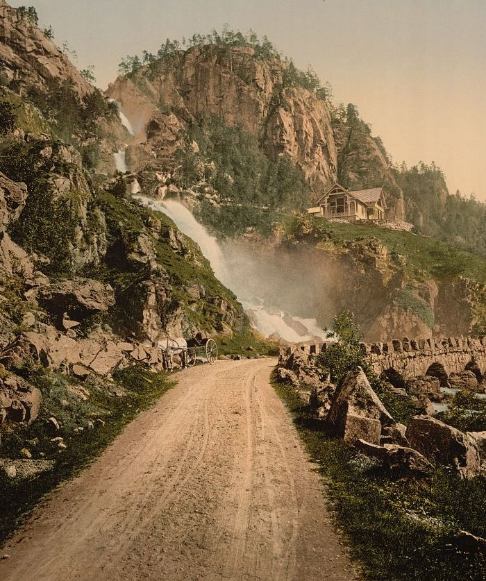 [Laatefos, Odde (i.e. Odda), Hardanger Fjord, Norway] [between ca. 1890 and ca. 1900]. 1 photomechanical print : photochrom, color. Notes: Title from the Detroit Publishing Co., Catalogue J--foreign section. Detroit, Mich. : Detroit Publishing Company, 1905. Print no. 7015. Forms part of: Landscape and marine views of Norway in the Photochrom print collection. Subjects: Norway--Hardangerfjord. Format: Photochrom prints--Color--1890-1900. Repository: Library of Congress, Prints and Photographs Division, Washington, D.C. 20540 USA, Part Of: Landscape and marine views of Norway (DLC) 2001699563 More information about the Photochrom Print Collection is available at Persistent URL: Call Number: LOT 13432, no. 033 [item]